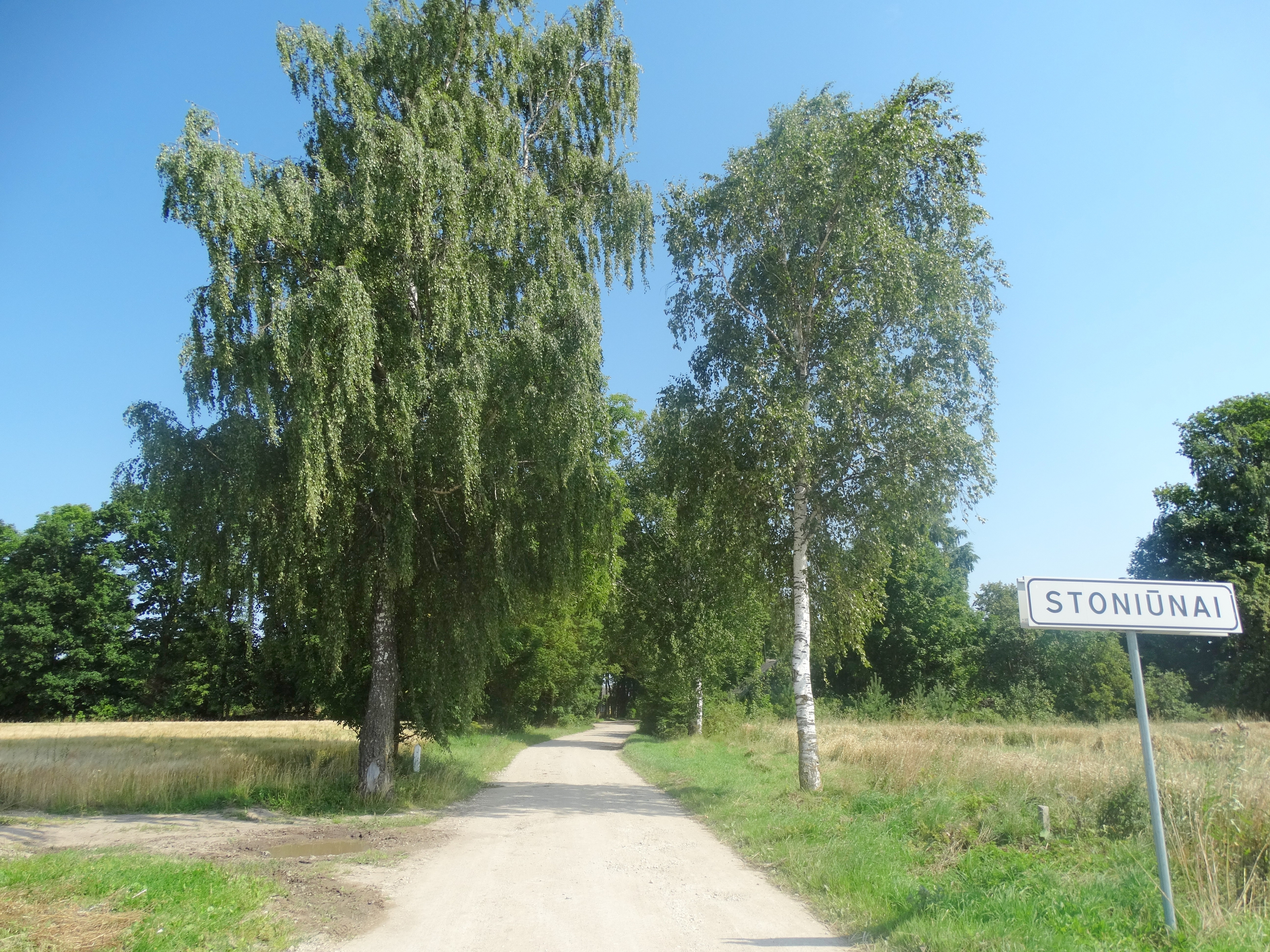 Stoniūnai, Joniškis District, Lithuania